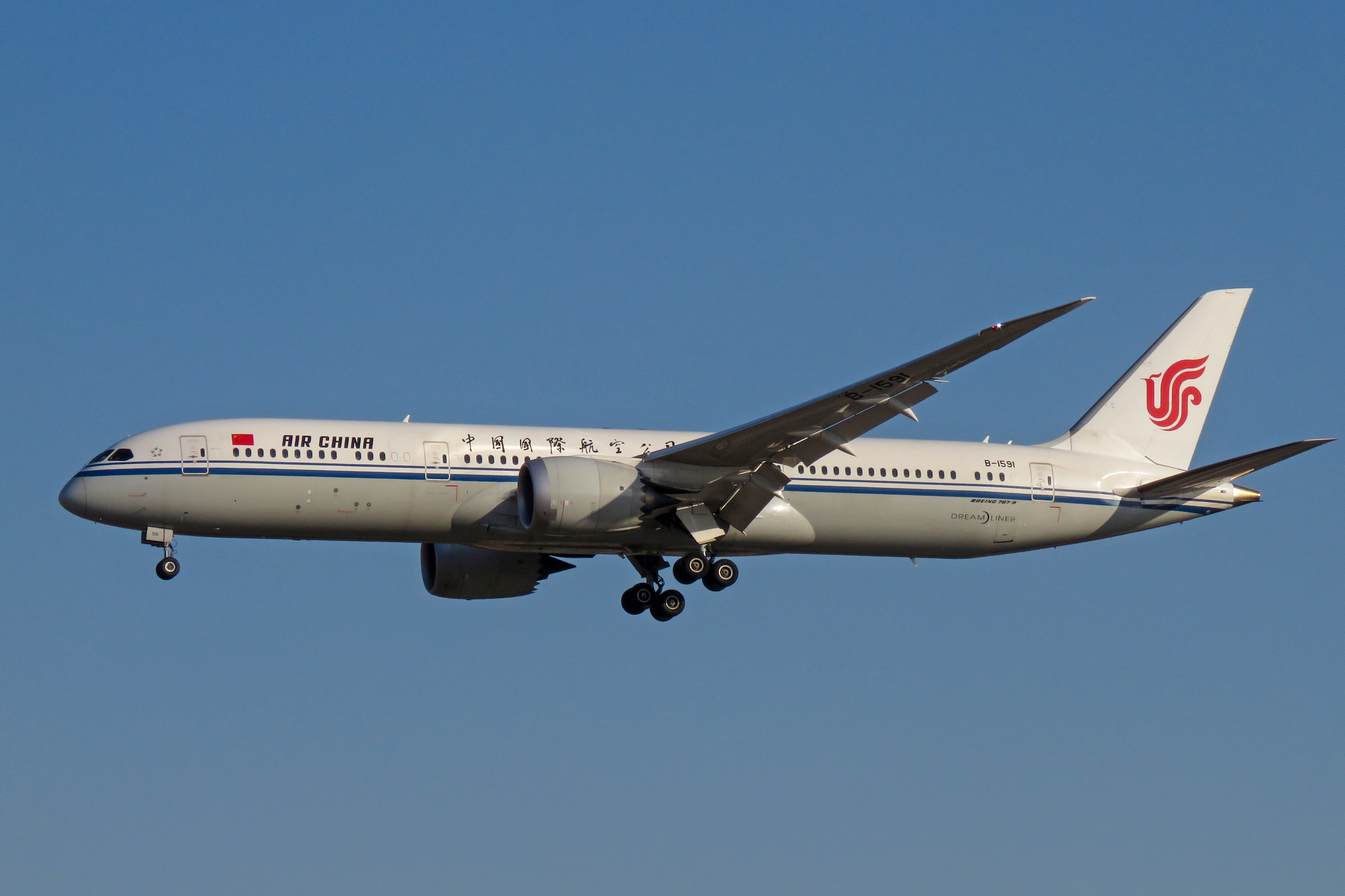 Air China 940 from Rome, delayed for 2 hours.